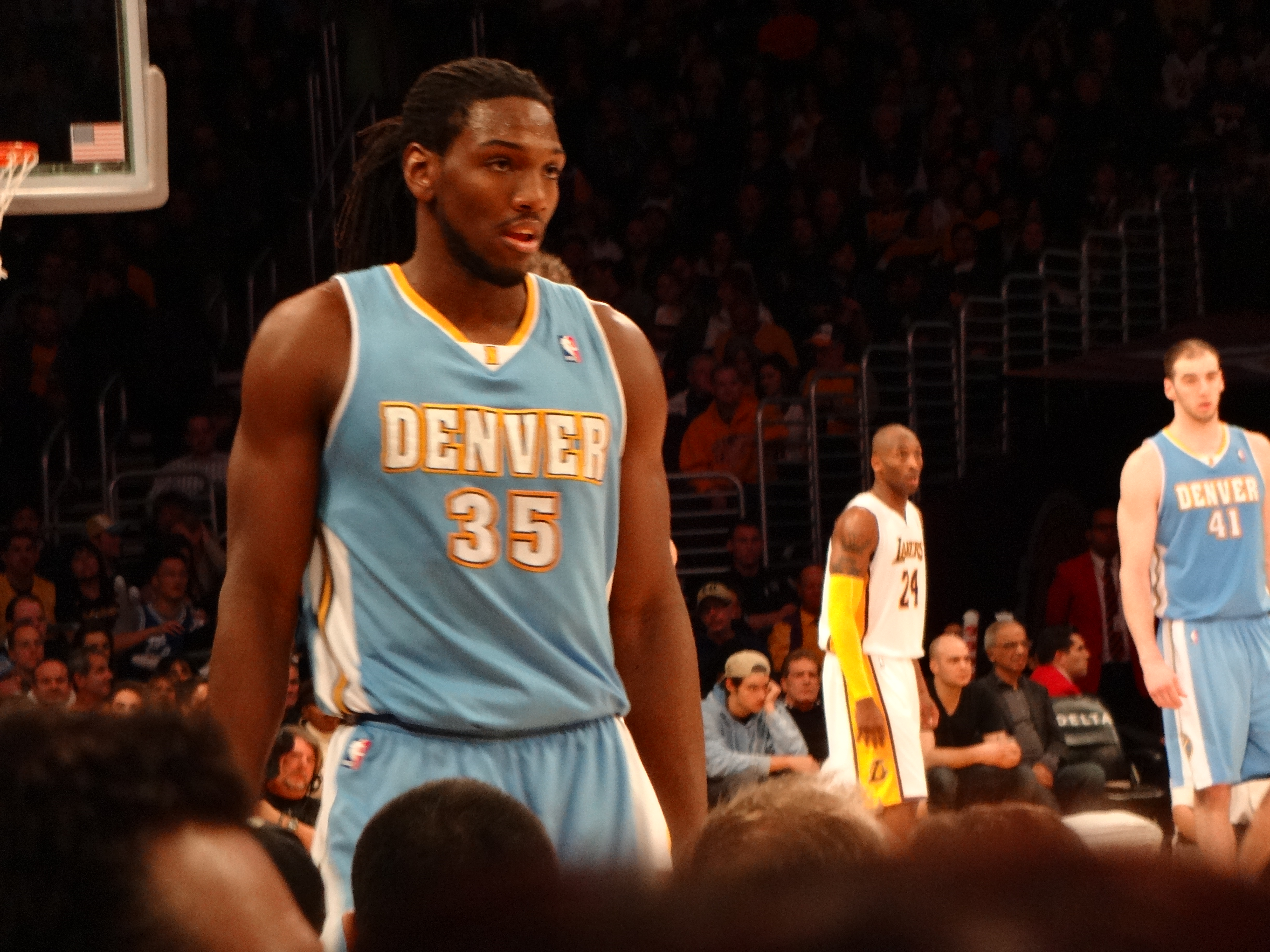 Los Angeles Lakers vs Denver Nuggets at the Staples Center. Kenneth Faried walks up the court.